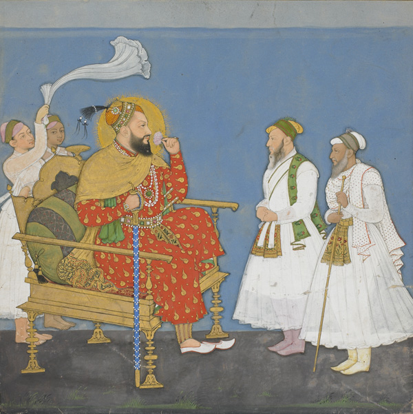 Muhammad Adil Shah II with courtiers and attendants late 18th century Muhammad Adil Shah II (r. 1627-56) Opaque watercolor and gold on paper H: 18.0 W: 18.0 cm Deccan, India Gift of Professor Alban G. Widgery of Winchester, Virginia F1968.7